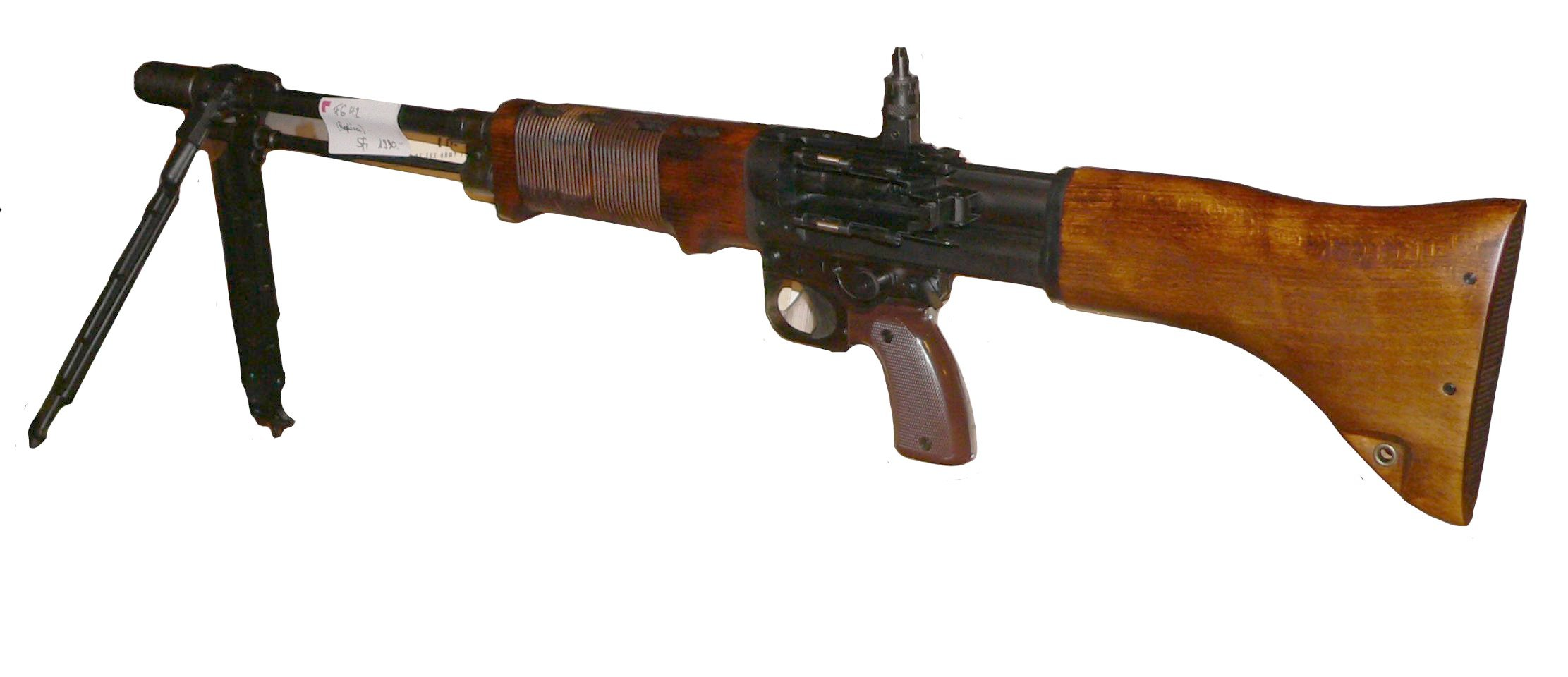 German Fallschirmjägergewehr 42 (FG42) automatic rifle, version FG42n/A